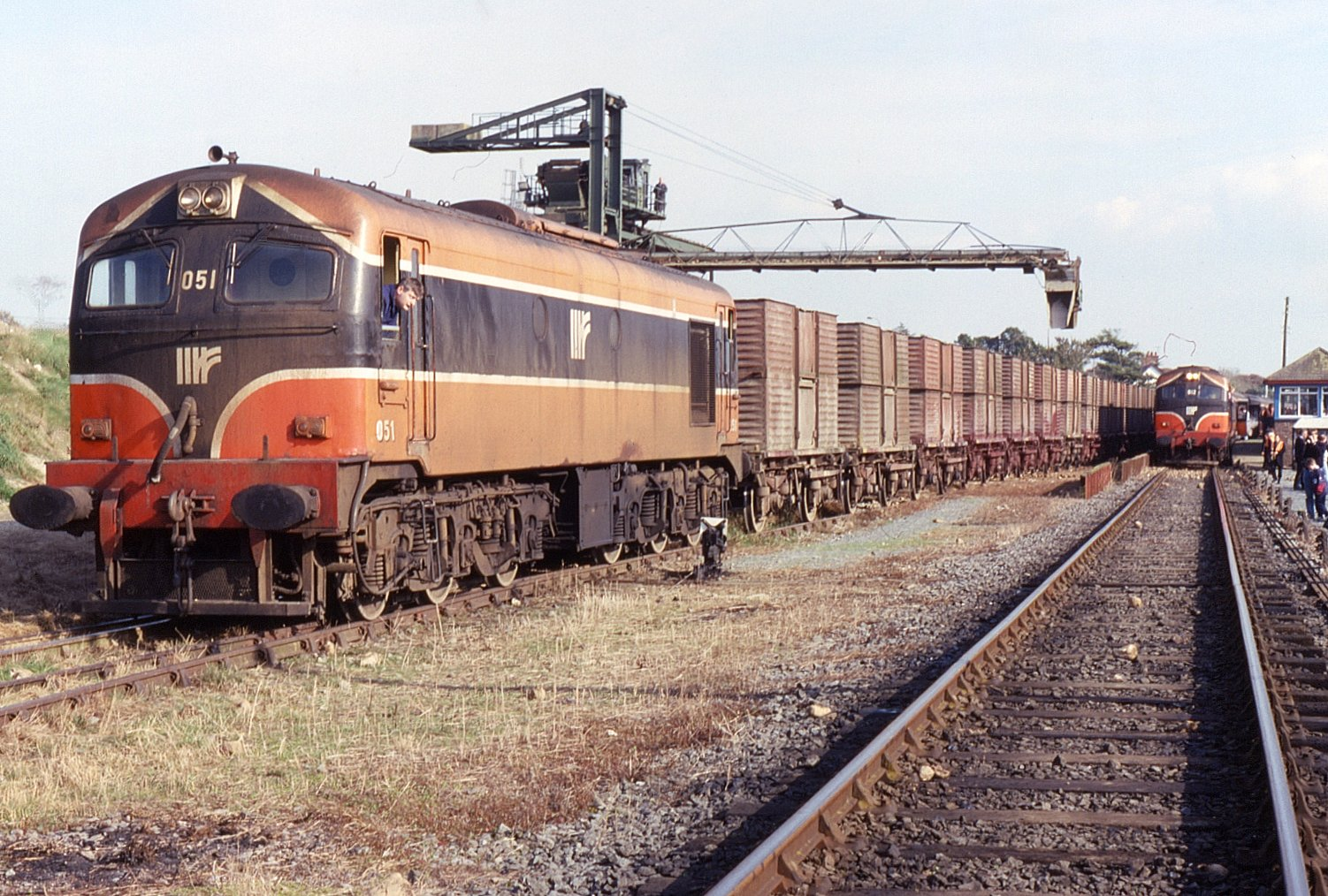 Again taken from the ITG "Bell Viewer" railtour on 23 October 1993. It was here the tour swapped locos with a freight at Wellington Bridge. 051 was to be used forward on the tour having already been here on freight of sugar beet wagons. In the background is 012 which had worked the tour from Dublin via a reversal Rosslare Harbour.